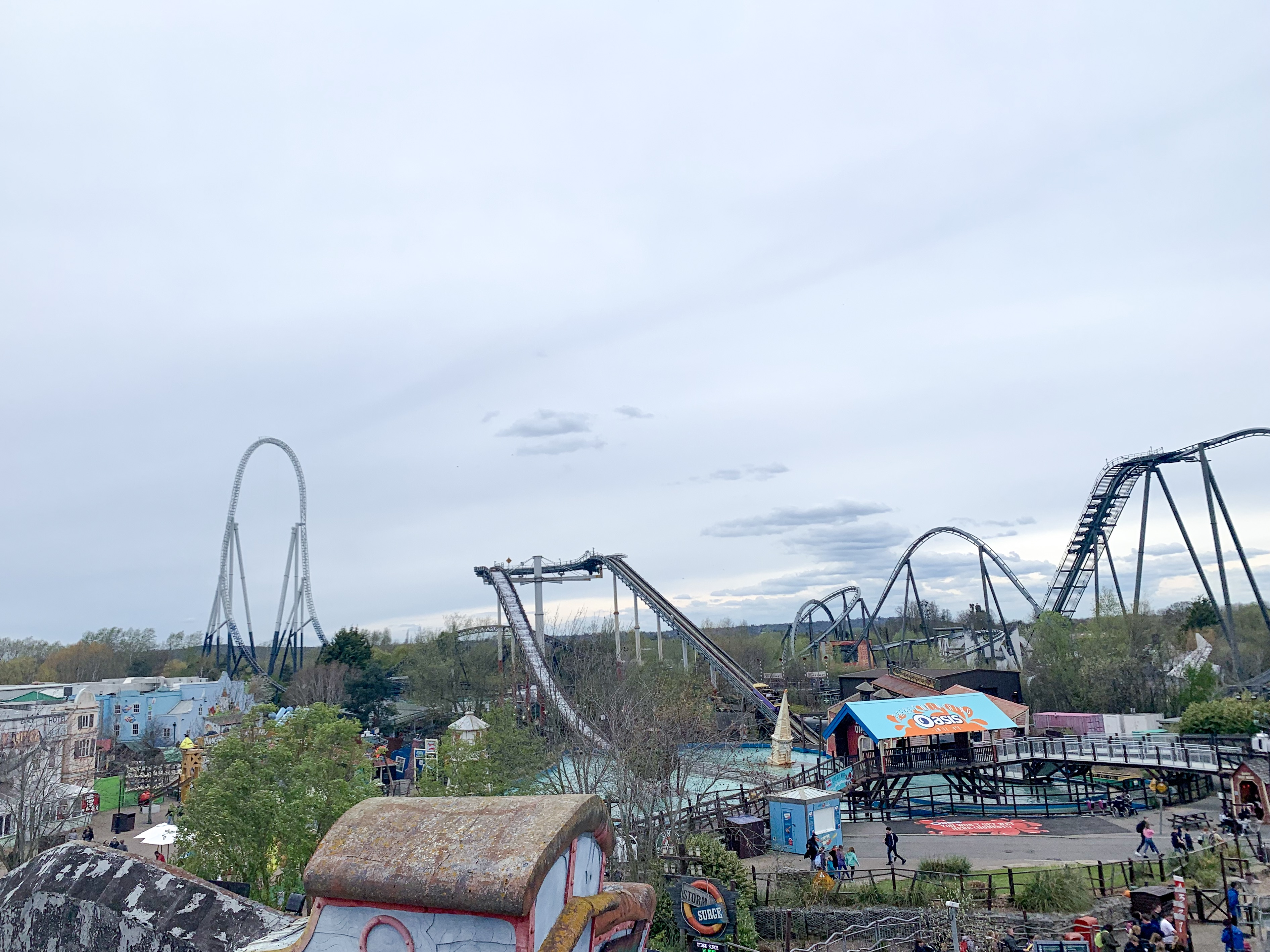 Image of Thorpe Park Resort